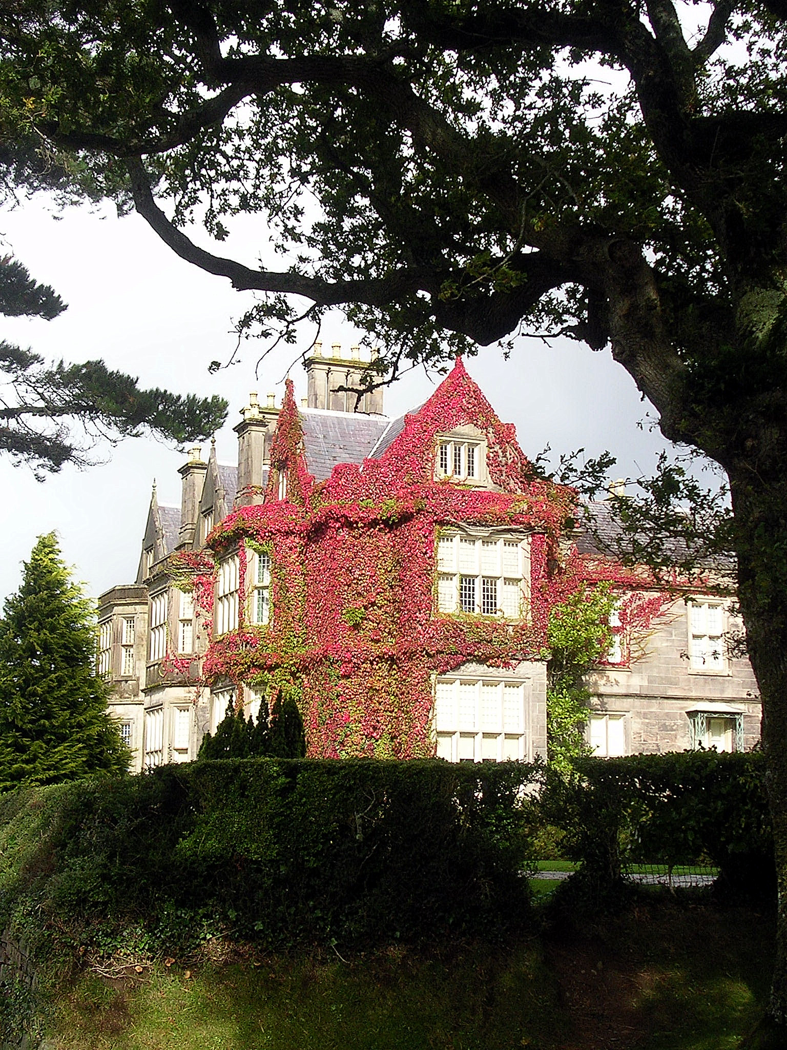 Mucross House, Killarney, County Kerry, Ireland